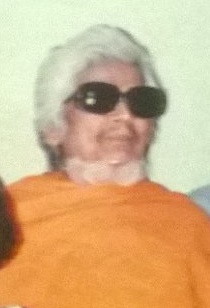 Faturananda's picture from personal collection.